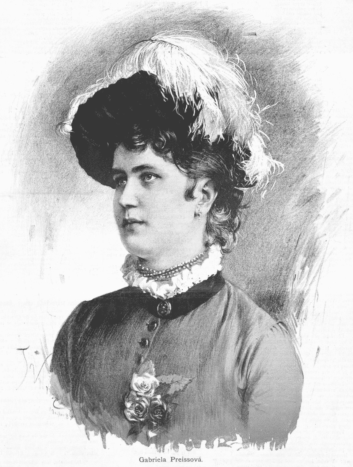 Portrait of Gabriela Preissová, Czech writer.